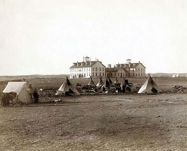 U.S. School for Indians at Pine Ridge, SD. 1891. The illustration documents Small Oglala tipi camp in front of large government school buildings in open field.